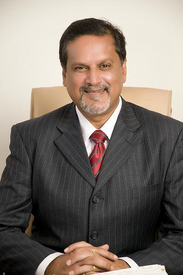 Chief Executive of Stock exchange of Mauritius as of 2012